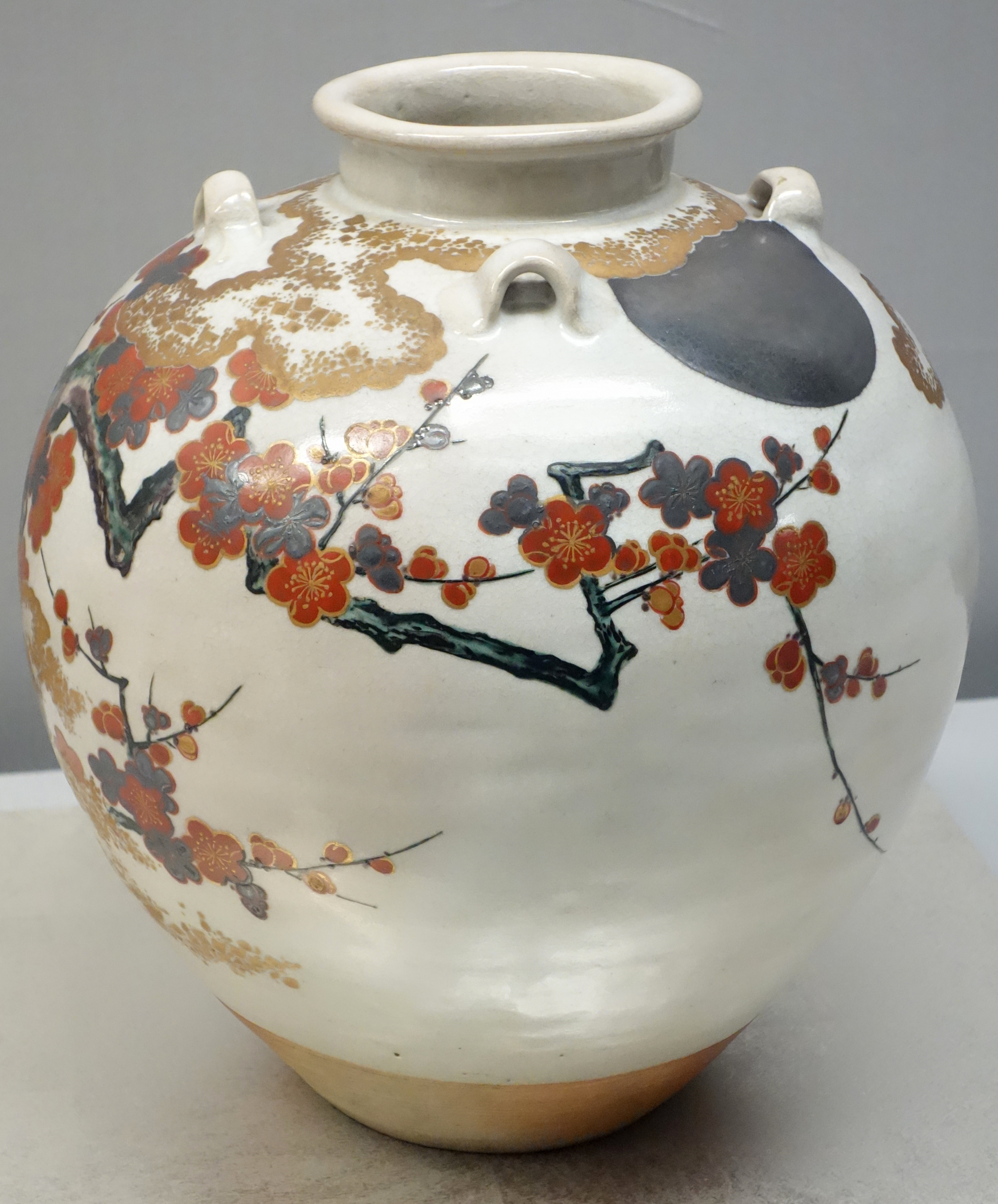 Tea leaf jar, moon and plum design in overglaze enamel, by studio of Ninsei, Edo period, 17th century. Exhibit in the Tokyo National Museum, Tokyo, Japan. This artwork is old enough so that it is in the public domain.